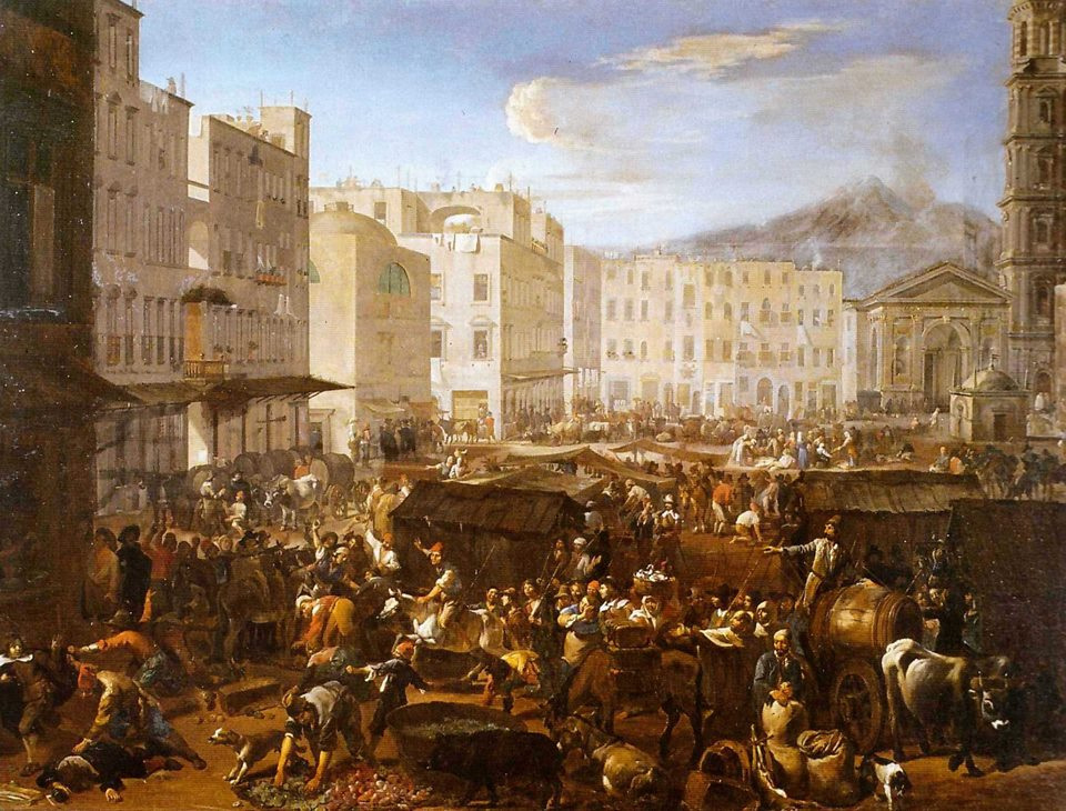 The Anti-Spanish revolt of Masaniello in the Piazza del Mercato in Naples on 7 July 1648.